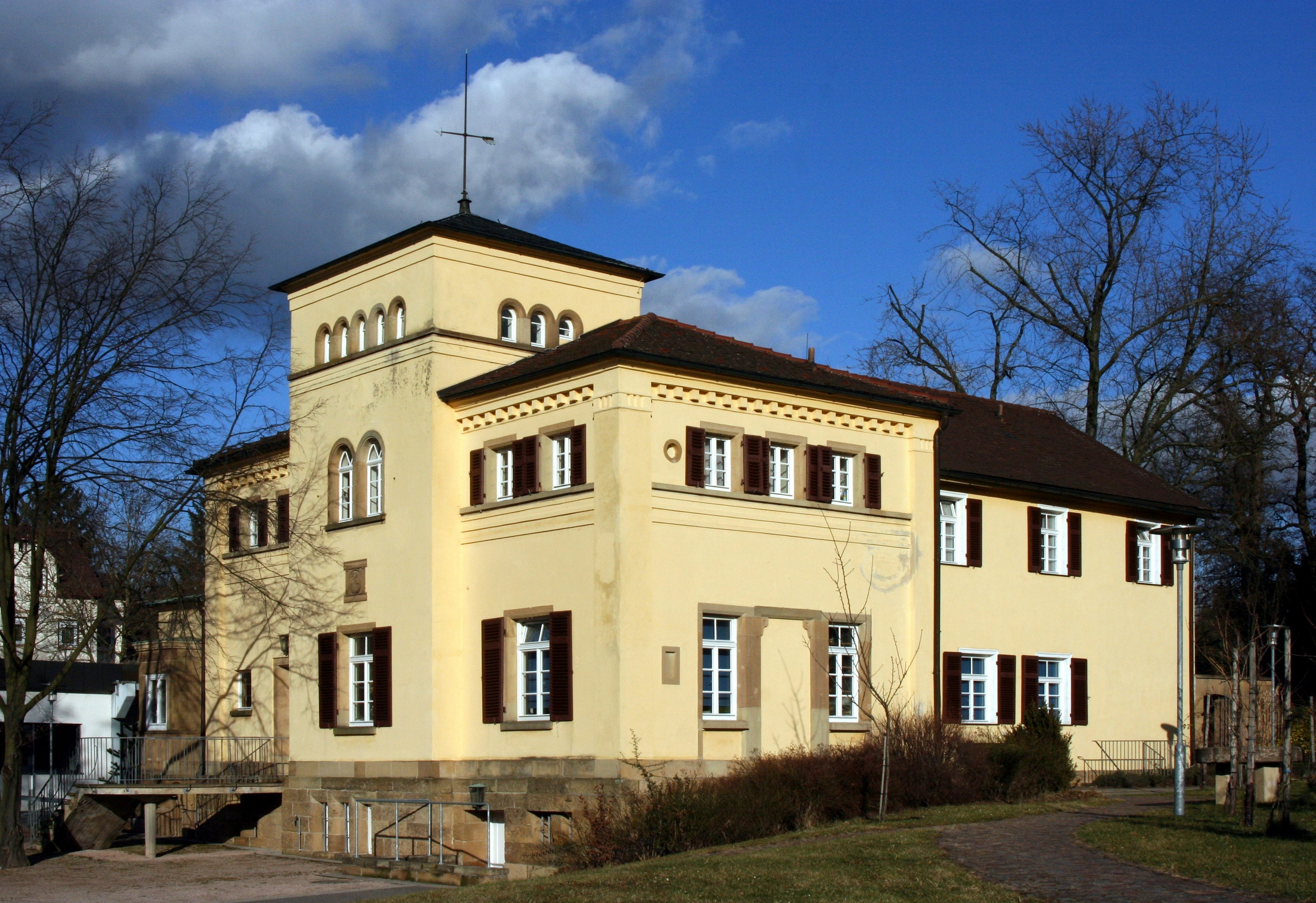 The Hildt villa on the premises of the viticulture school in Weinsberg